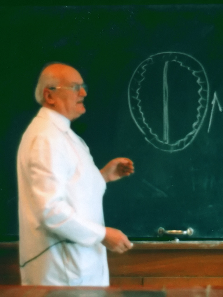 Prof. Otto Prokop at his very last lecture in 1991 at Charité Berlin. He explains the mechanism of coup-contrecoup in traumatic brain injury.